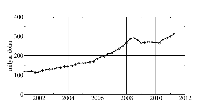 Turkey's foreign dept